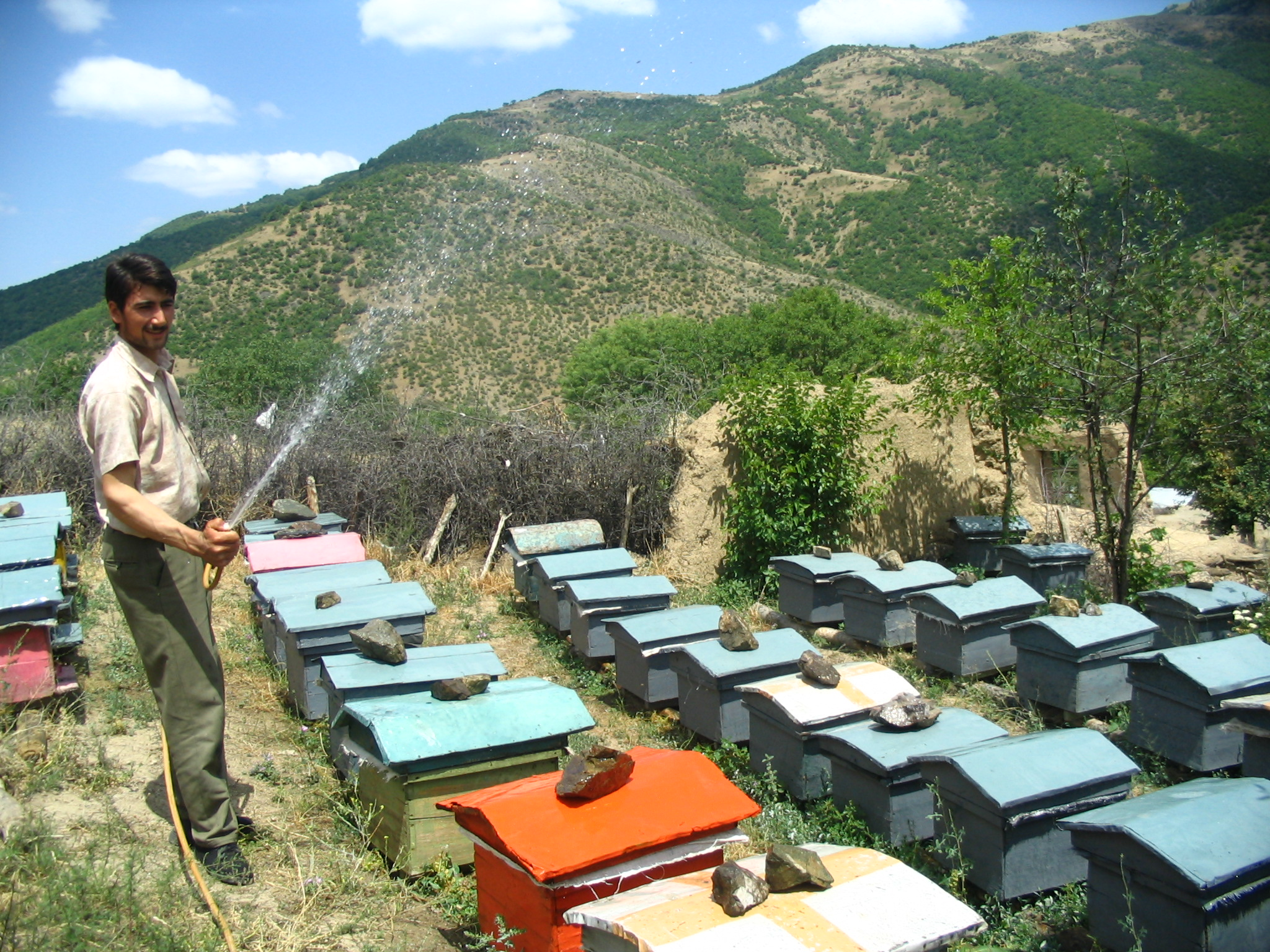 For Arasbaran page